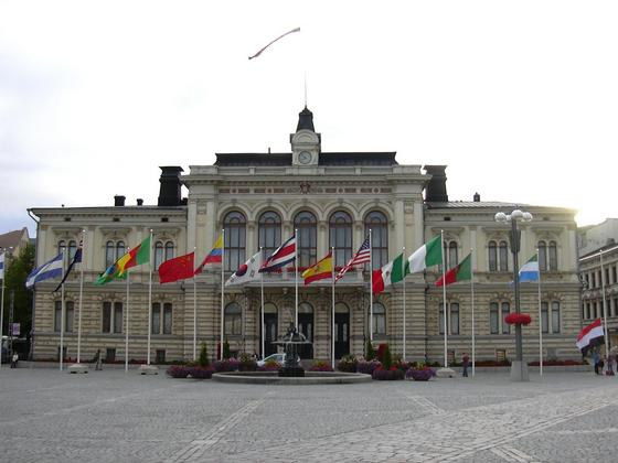 Tampere town hall